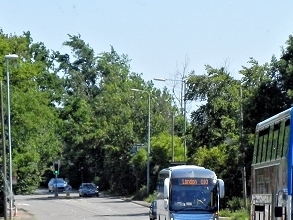 Stagecoach Cambridge Citi Bus on Madingley Road